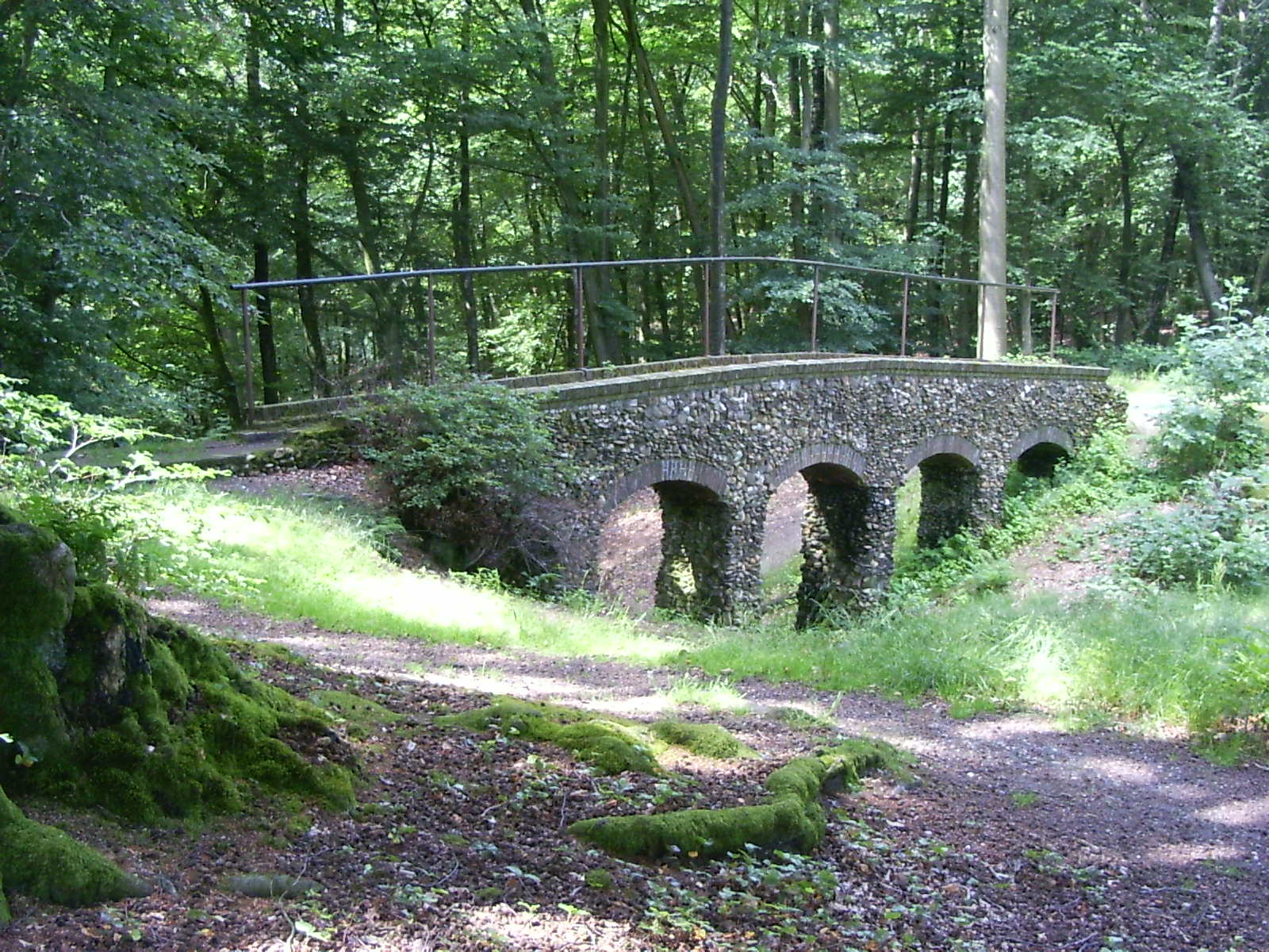 Doorwerth, Duno estate, stone bridge